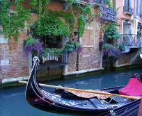 Venice, the primary tourist destination and the capital of Veneto. Runa Simi: Venezia.